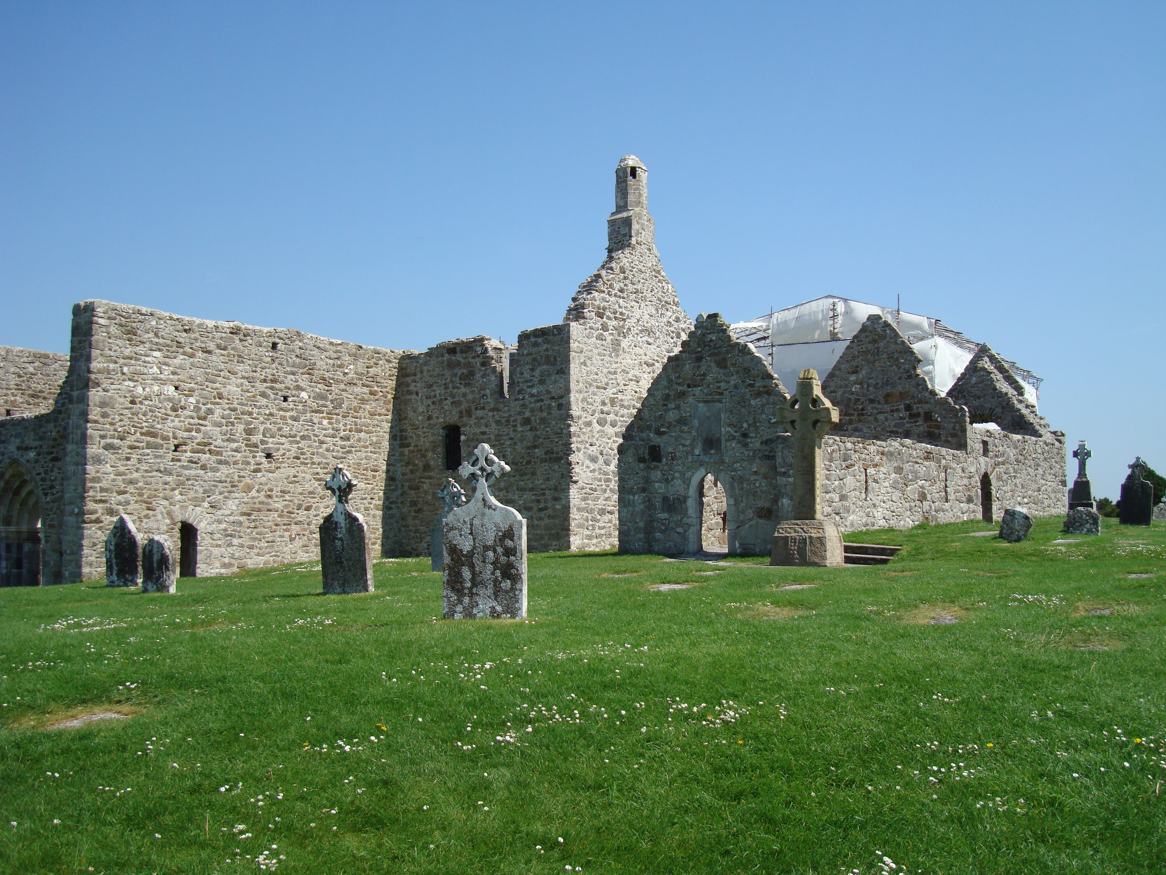 Photograph of St Keiran's Cathedral, Clonmacnoise, Co. Offaly, Republic of Ireland